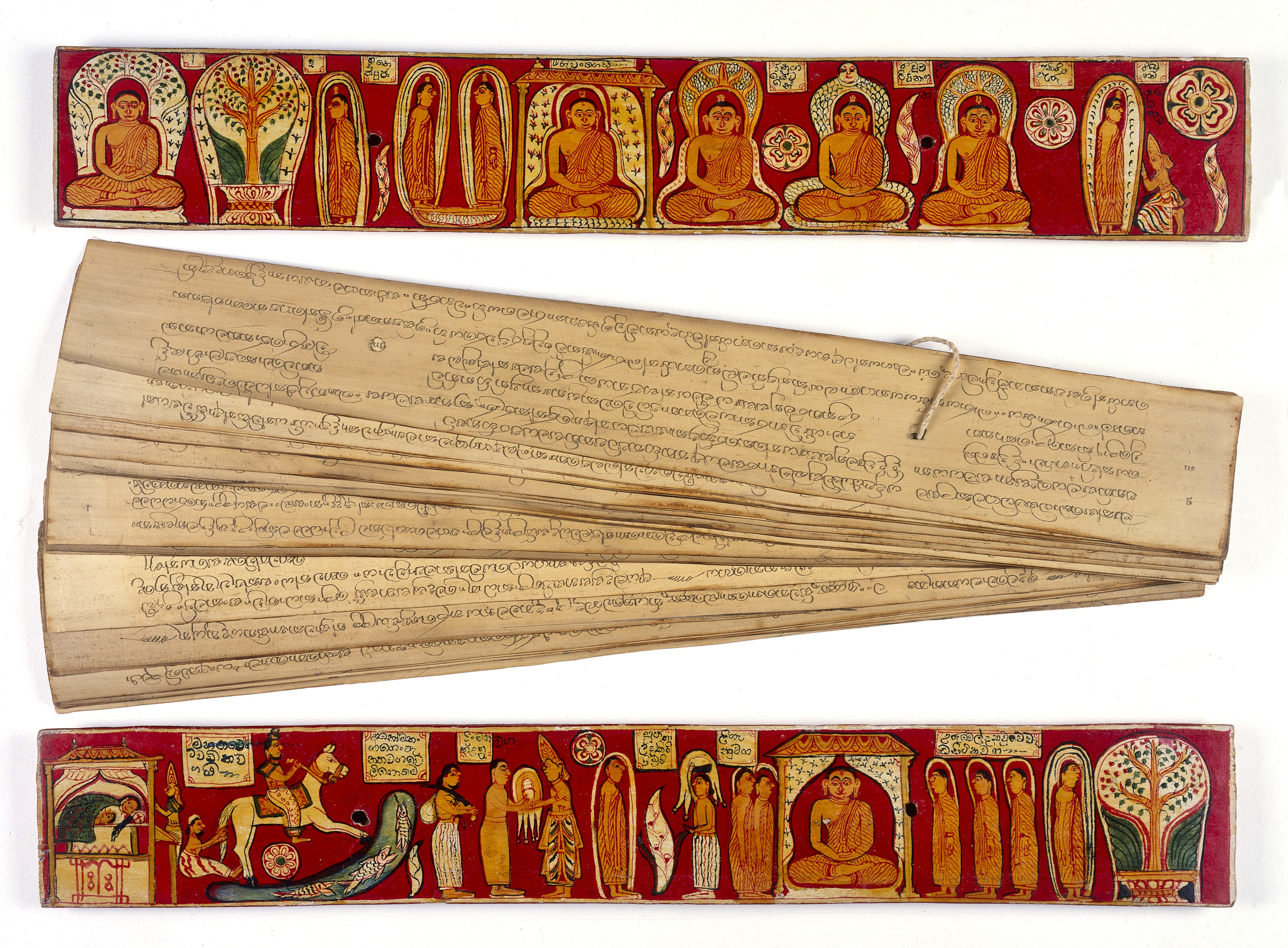 Illustrated Sinhalese covers (inside), and palm leaf pages, showing parts of the life of Buddha. These two leaves show the events between the Prince Siddhattha renunciation of his life and the request by Brahna Sahampati, a celestial being, that he teach after he becomes a Buddha. Asian Collection Keywords: God; Buddhism; Religion; Art; Sri Lanka; Buddha